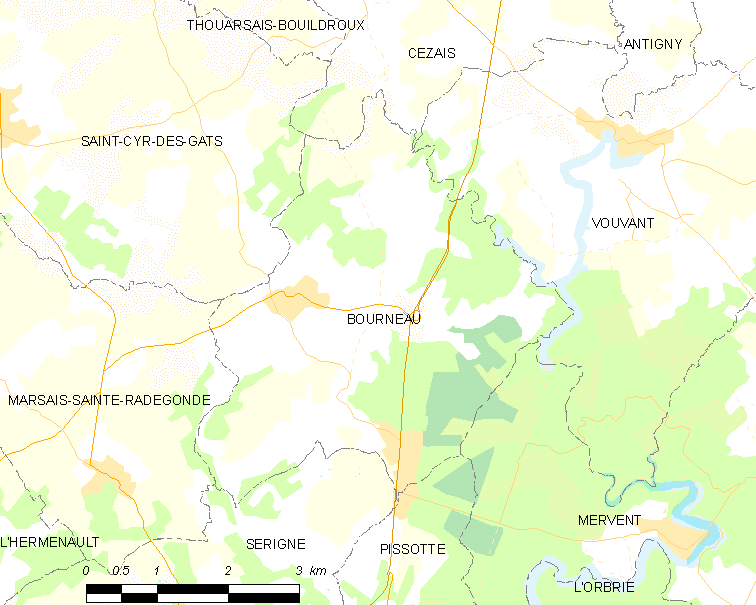 Map of French municipality Bourneau